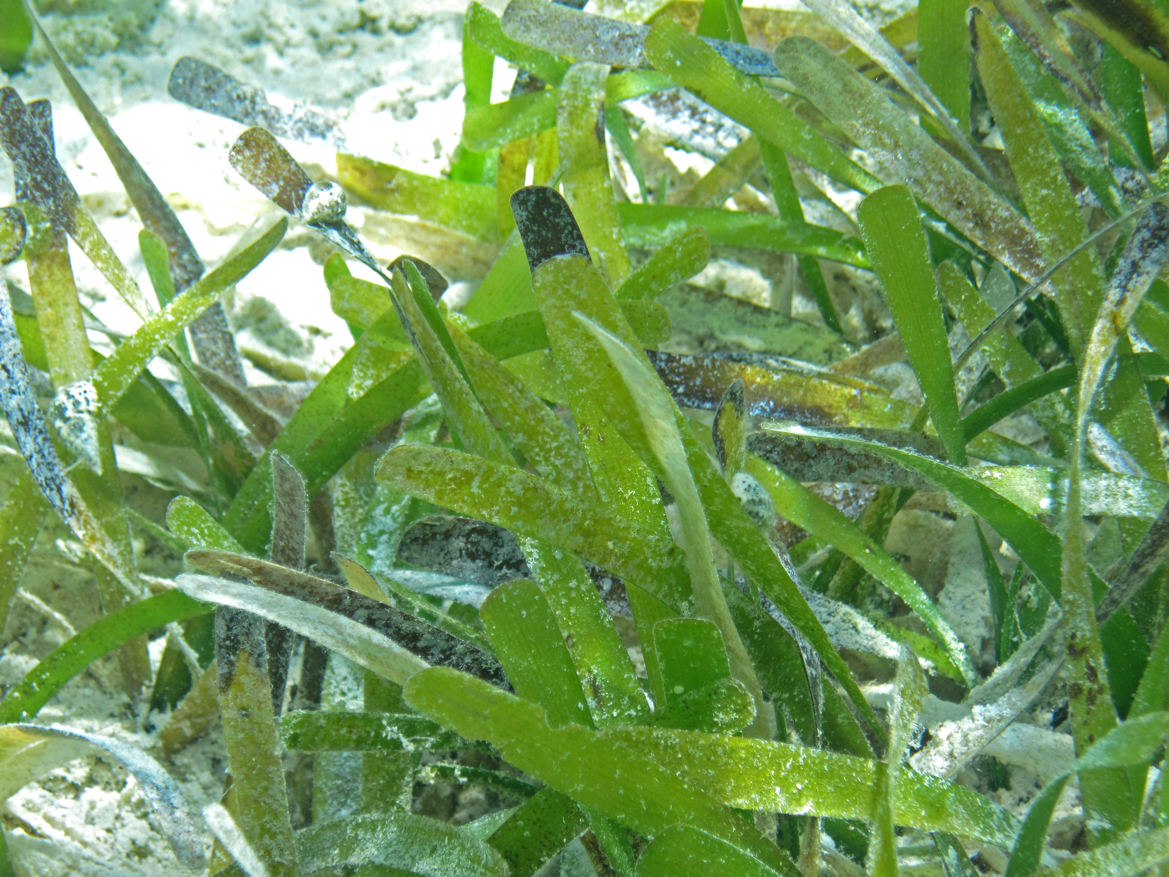 Thalassia testudinum König, 1805 - turtle grass. Seagrasses are fully marine angiosperms (flowering plants). Seagrass beds only occur in the shallow water photic zone. Classification: Plantae, Angiospermophyta, Najadales, Hydrocharitaceae Locality: South Pigeon Creek estuary, southeastern San Salvador Island, eastern Bahamas